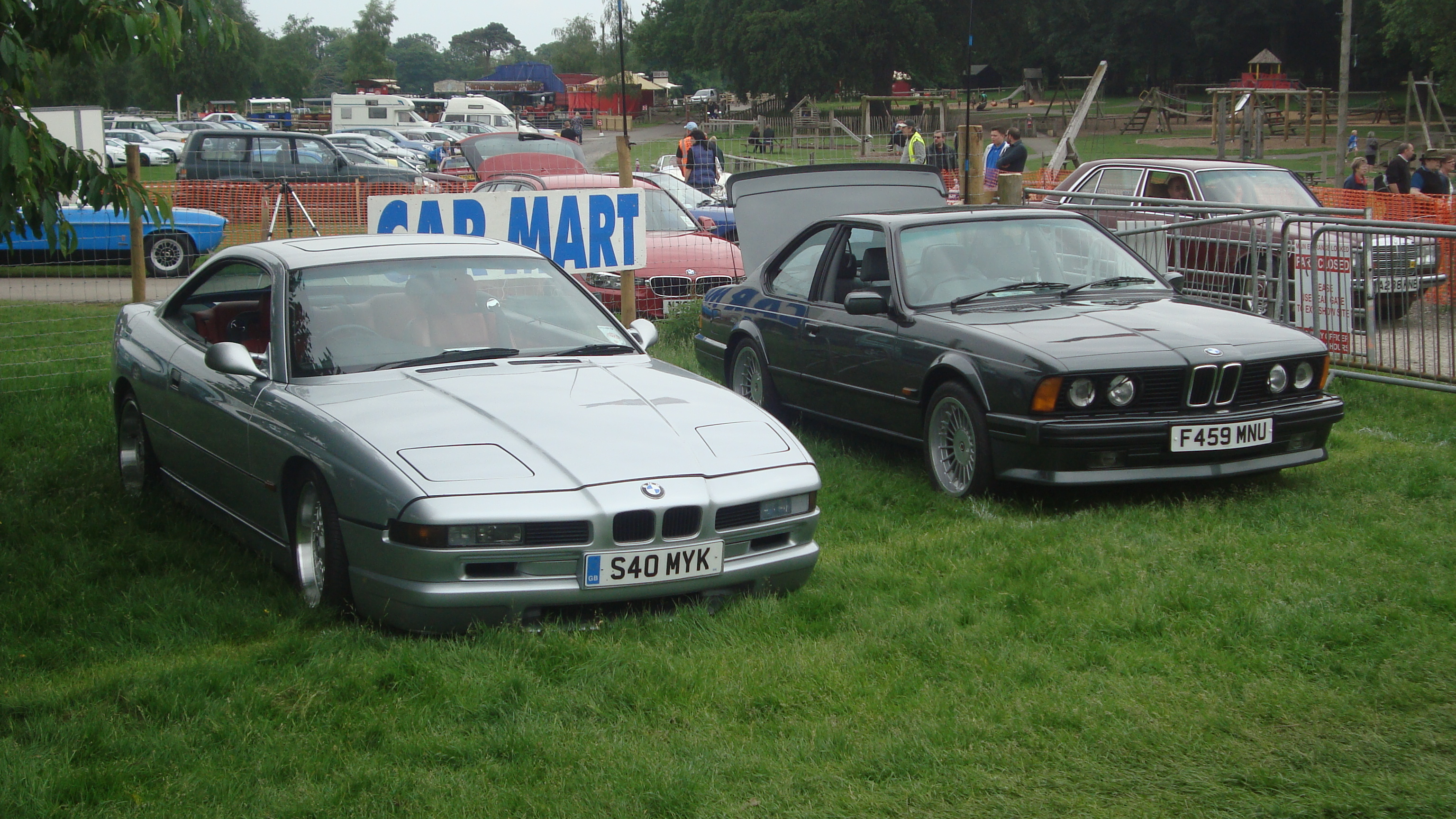 My two favourite BMW's, both of these were for sale although there wasn't a price on either of them